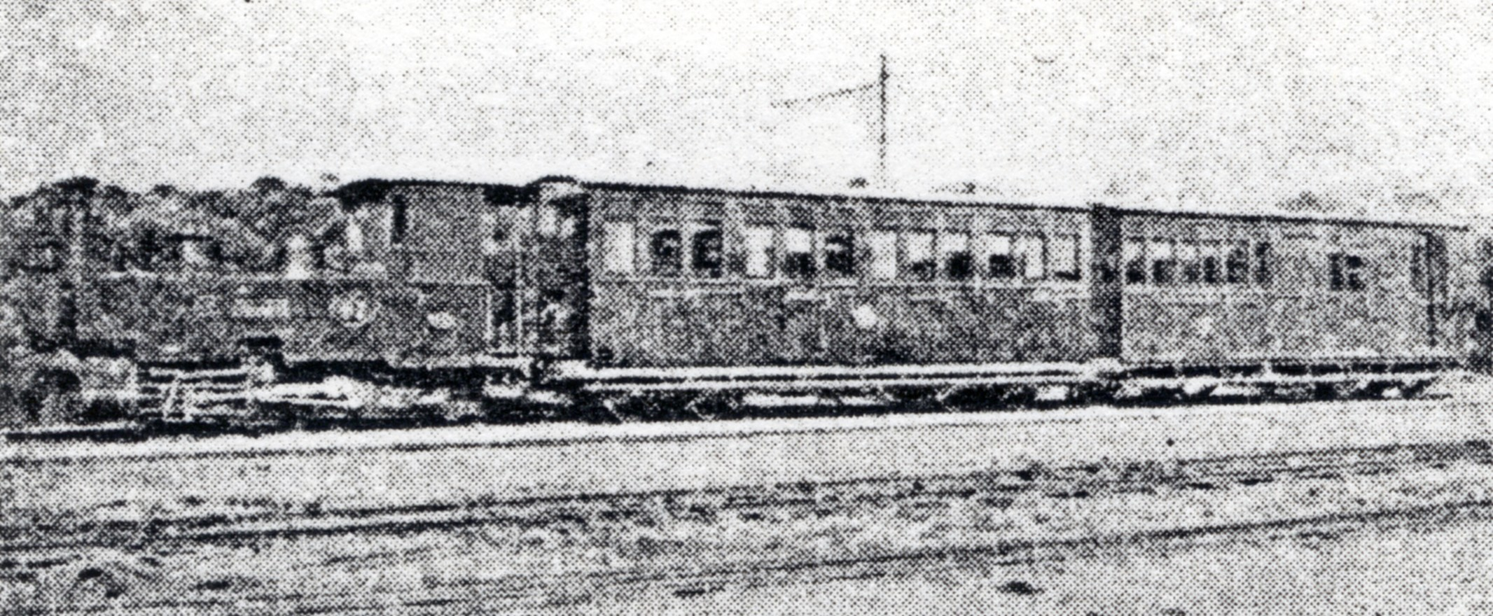 Cape Government Railways Type C 0-4-0T no. 41 on light passenger service